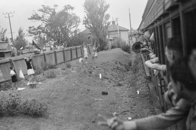 AWM Caption: Adelaide, SA. 14 March 1942. Troops of the 7th Australian Division receive a welcome from the people of the suburbs of Adelaide as they pass through on their way to Adelaide from the docks after having disembarked from His Majesty's Transport (HMT) Orcades on their return from the Middle East. Some people are waving flags from an embankment including a young girl waving a pennant with `AIF' on it.